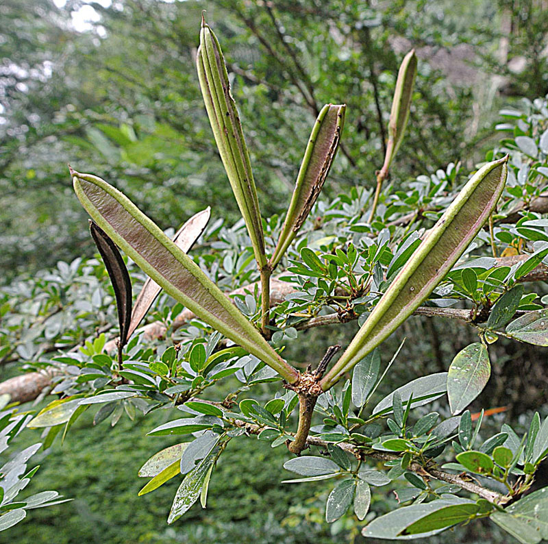 A species widespread in the Neotropics. Here in central Ecuador it is known as Yaki Yutzu. In context at